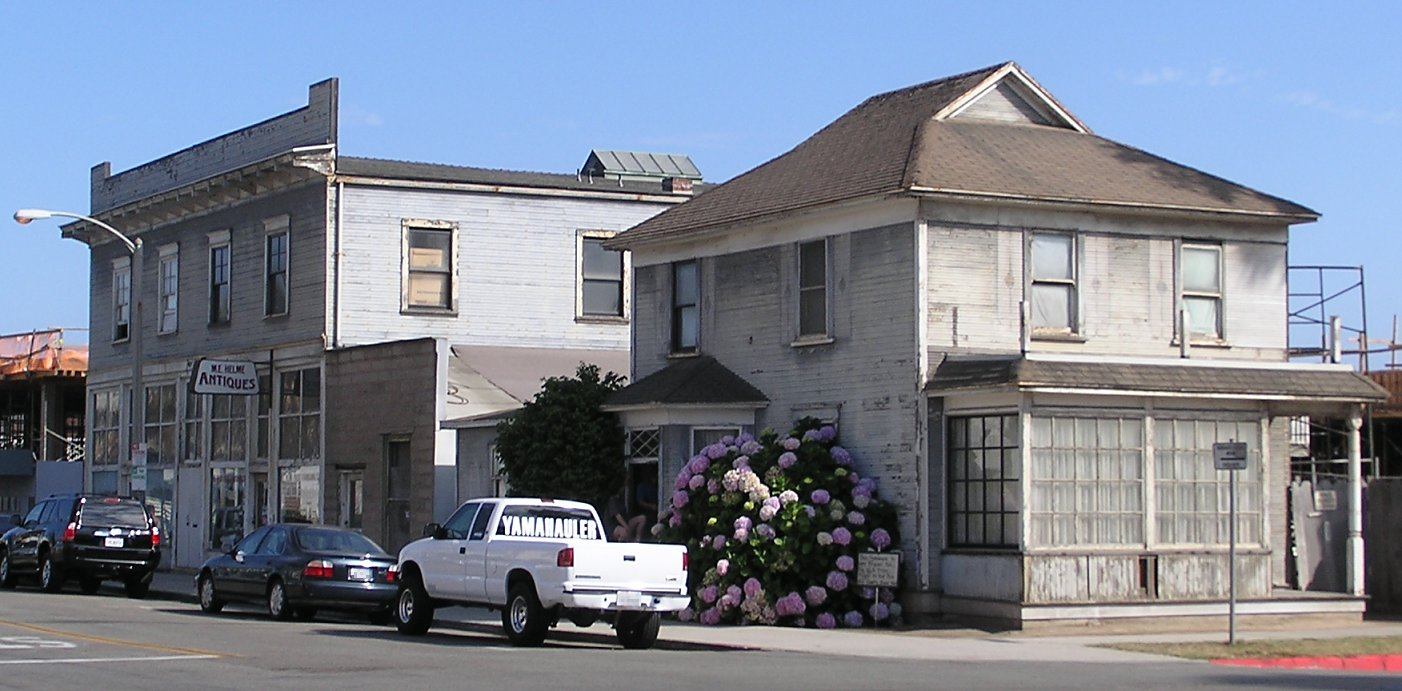 The Helme-Worthy Store and Residence, registered as a National Historic Place, in Huntington Beach, California. 25 July 2007 Taken by Eric Polk for use in Helme-Worthy Store and Residence